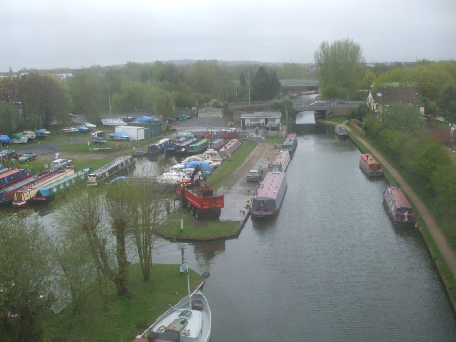 Grand Union Canal looking southeast from a Metropolitan line train south of Watford tube station